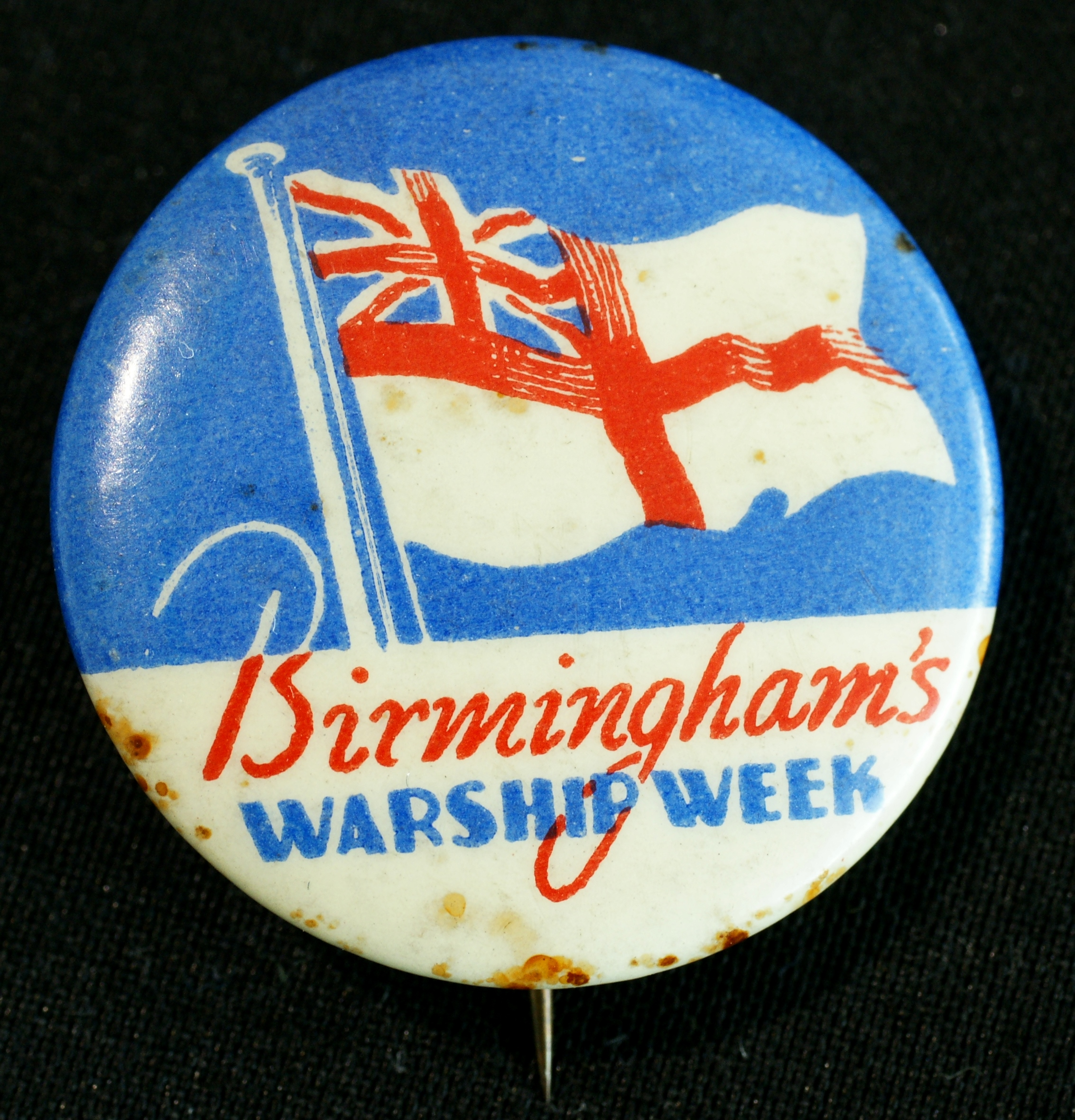 Images from ThinkTank by Sasha Taylor